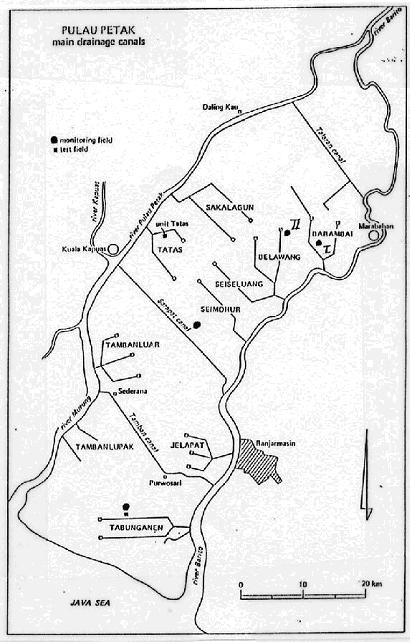 Island of Pulau Petak near Bandjermasin, South Kalimatan, Indonesia